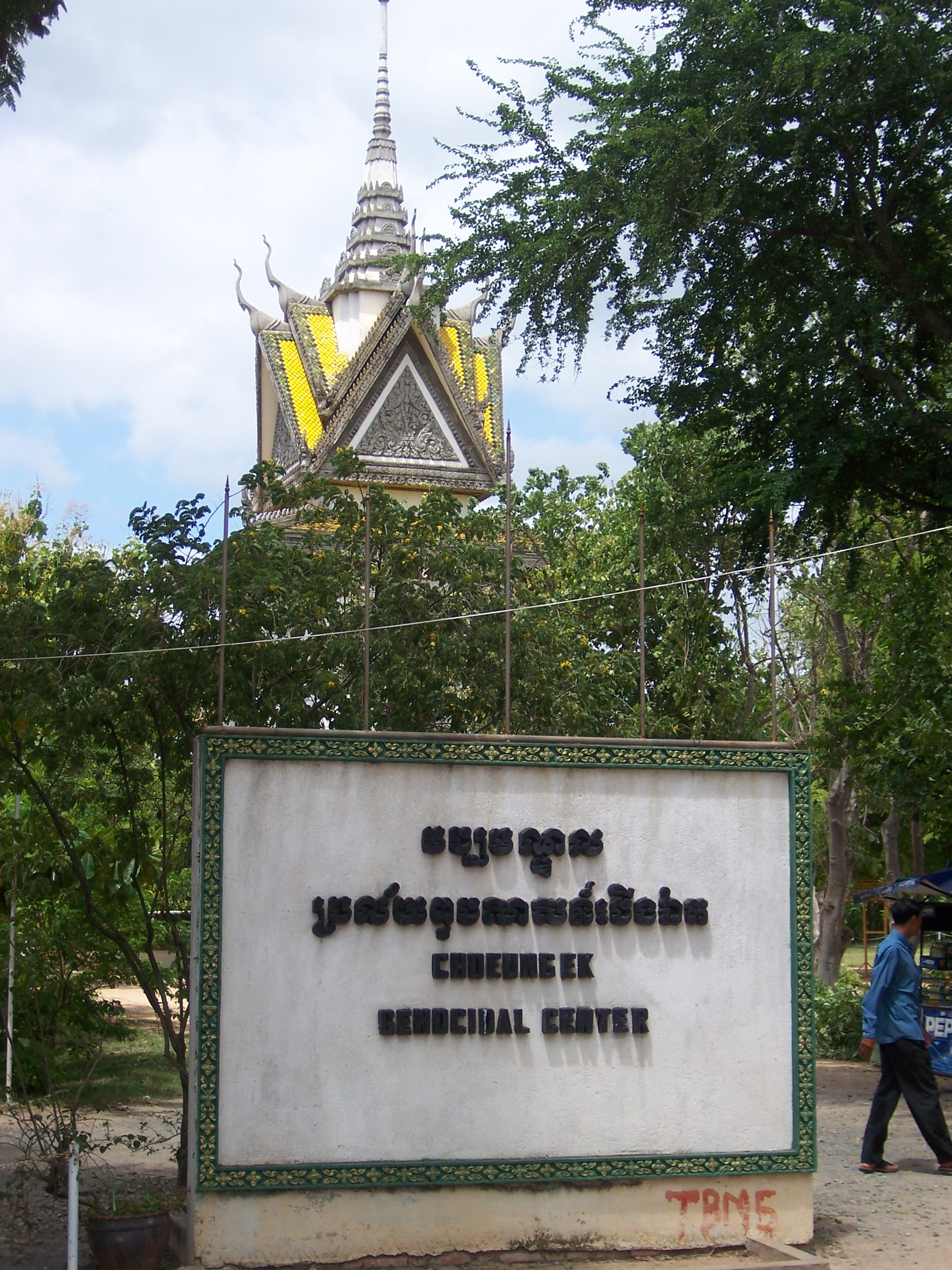 Choeung Ek genocidal center, near Phnom Penh, Cambodia